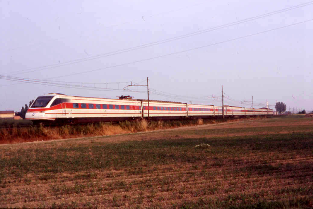 Italian tilting train of class ETR 460 near San Giovanni in Persiceto (Province of Bologna)